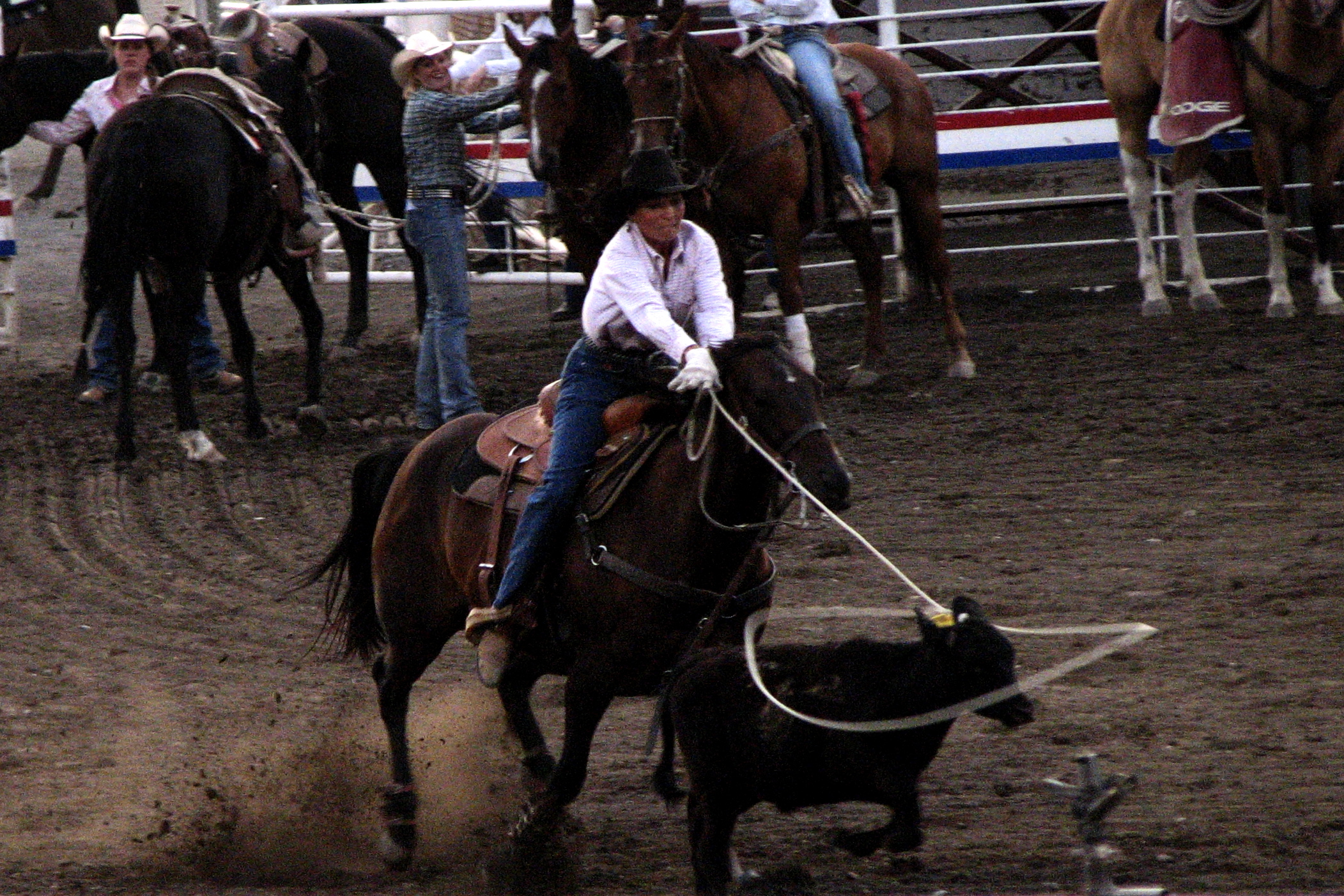 rodeo, road trip, the west, rocky mountains